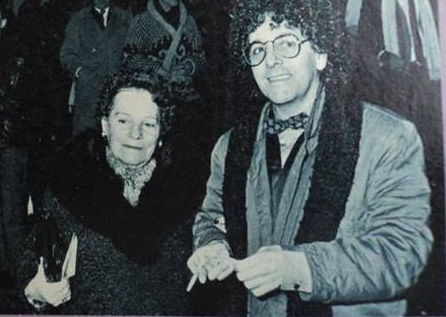 Antonio Gasalla and your mather